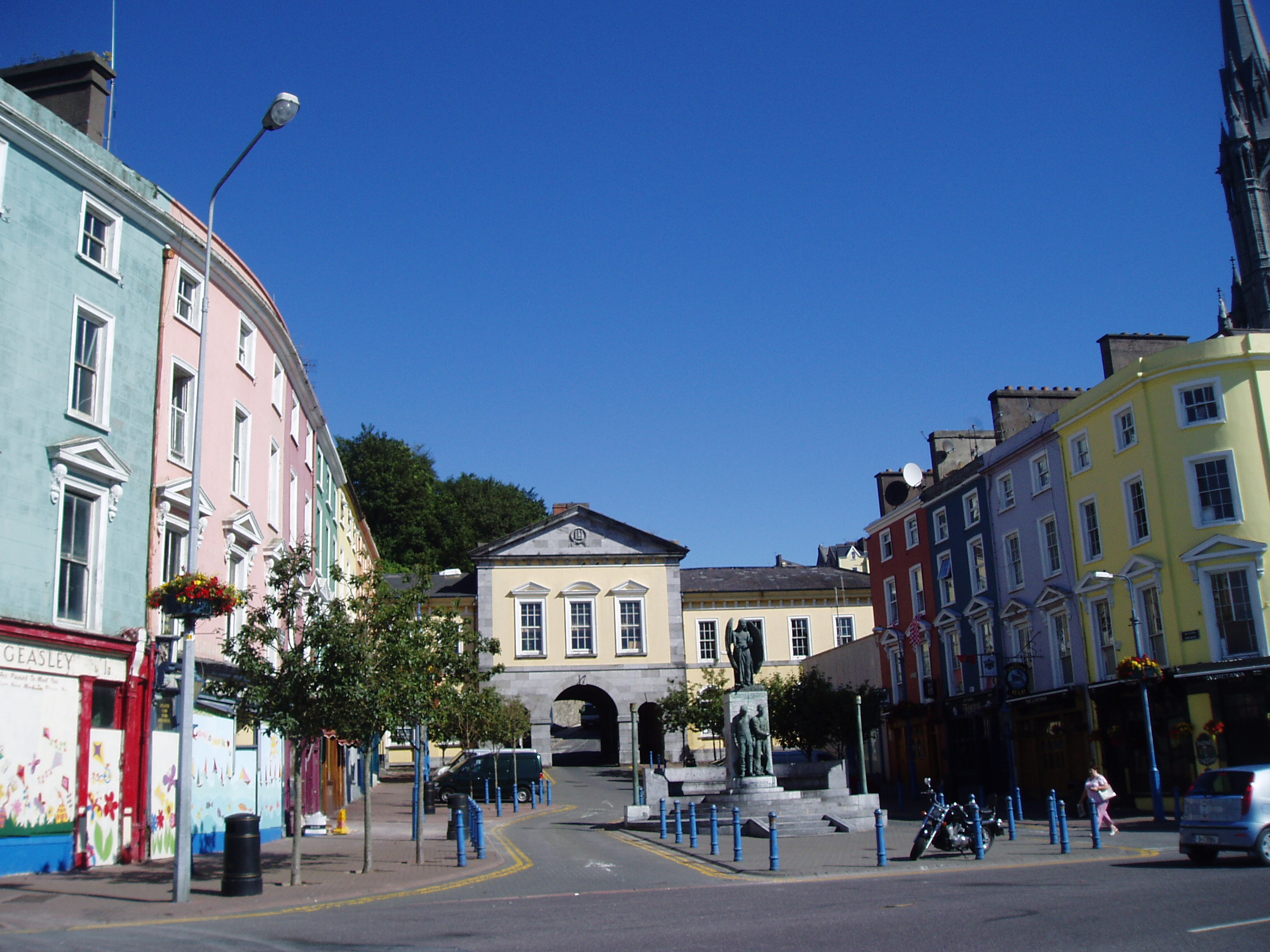 Casement Square, Cobh, County Cork, Ireland